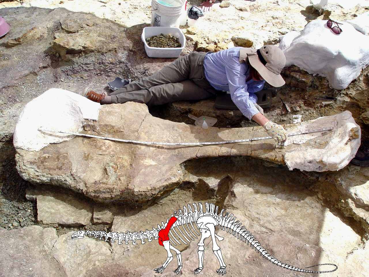 Passport in Time volunteer Frances Mayse measures a nearly eight-foot-long shoulder blade of an Apatosaurus near the Last Chance quarry in May 2008. The graphic inset shows the location of the bone on the Apatosaurus. (U.S. Forest Service photo)